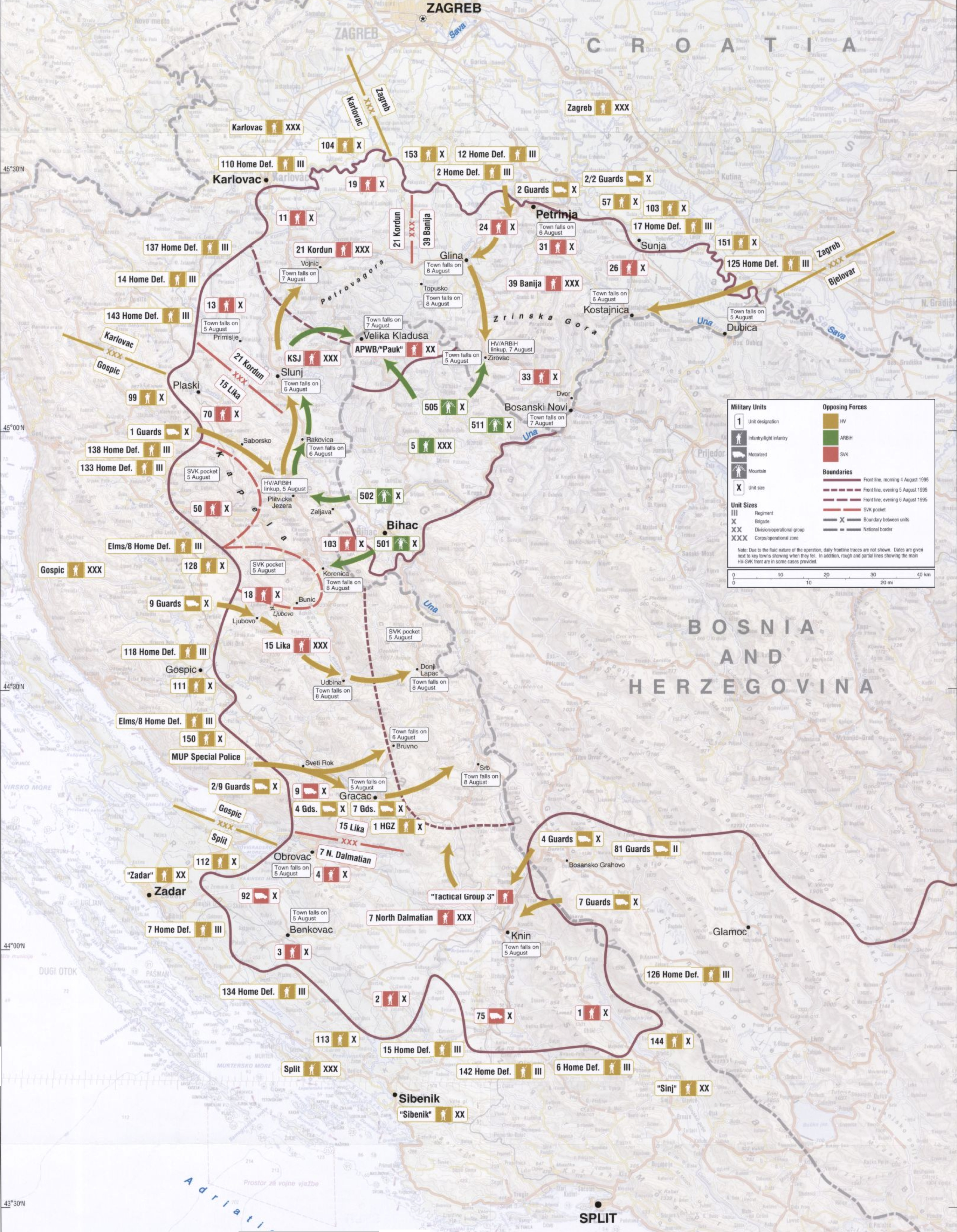 Balkan War/Croatia War/Map of Operation Storm (hr: Operacija Oluja)